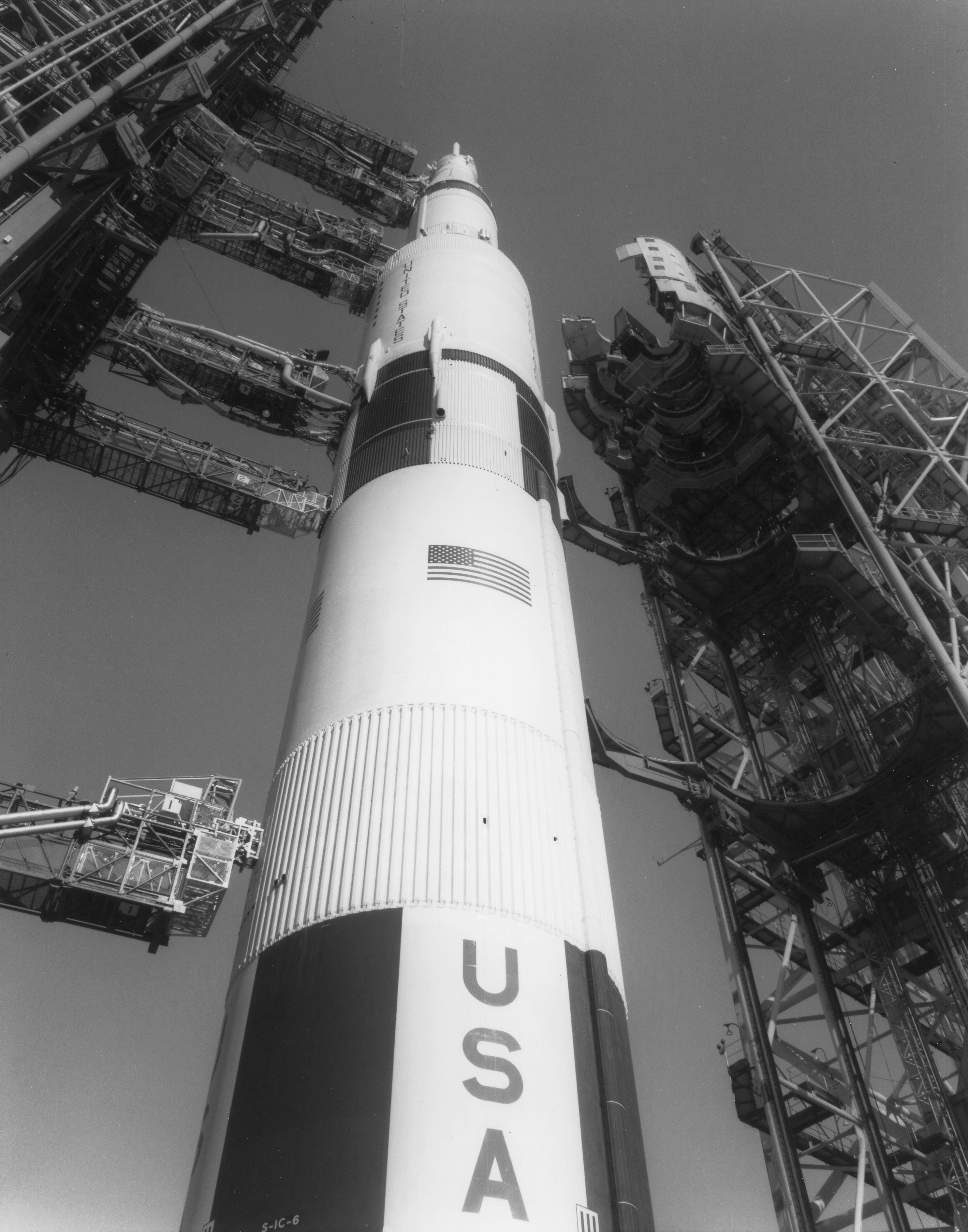 The Mobile Service Structure moves away from Apollo 11 on pad 39-A